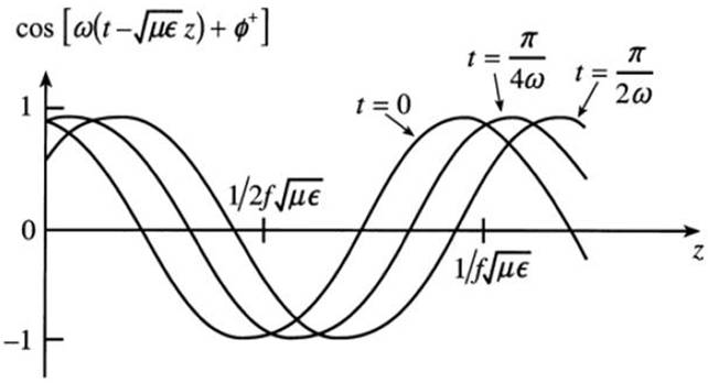 Evolving optical mechanical waveform